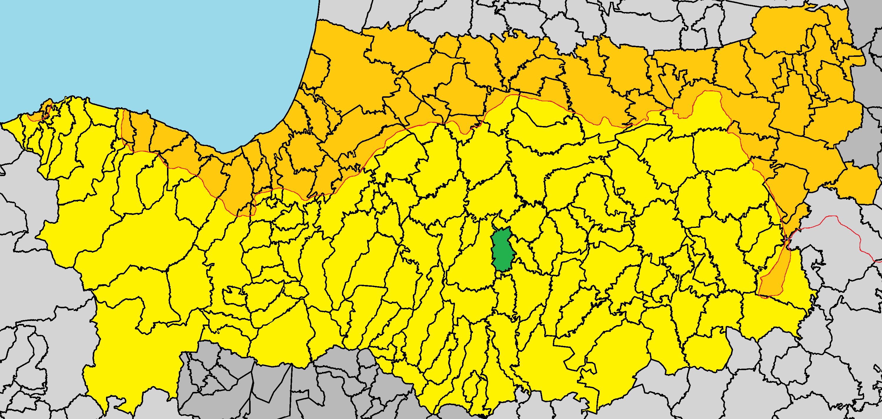 Agrokipia in Nicosia District.